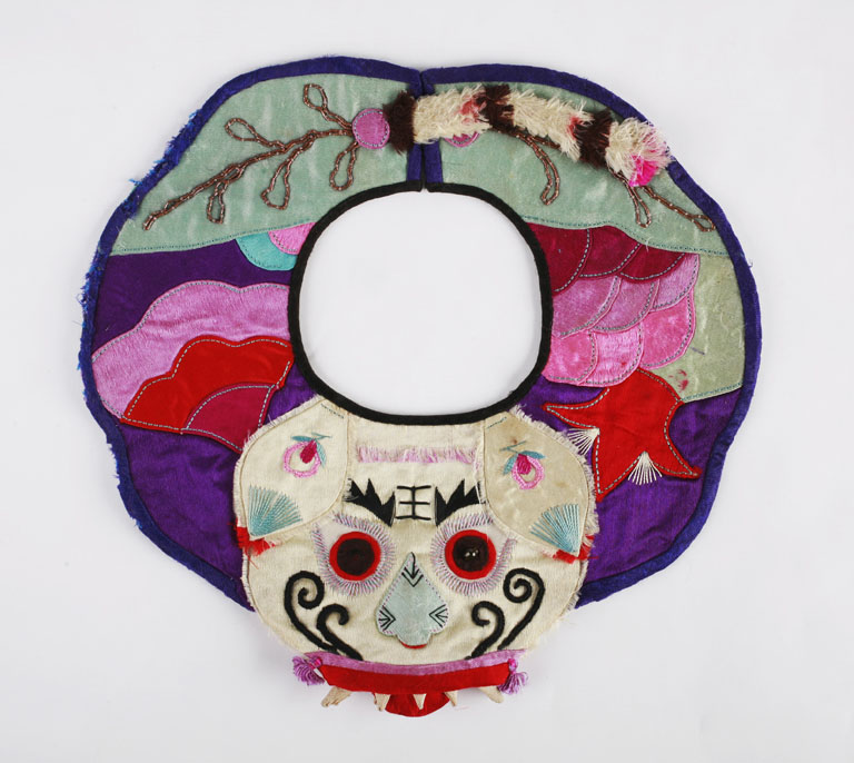 An Emboridered infant bib or collar in the permanent collection of The Children’s Museum of Indianapolis.